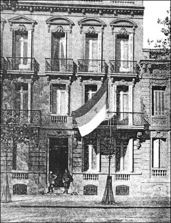 Building of headquarters of montenegrin royal government in exile in Bordeaux, France.